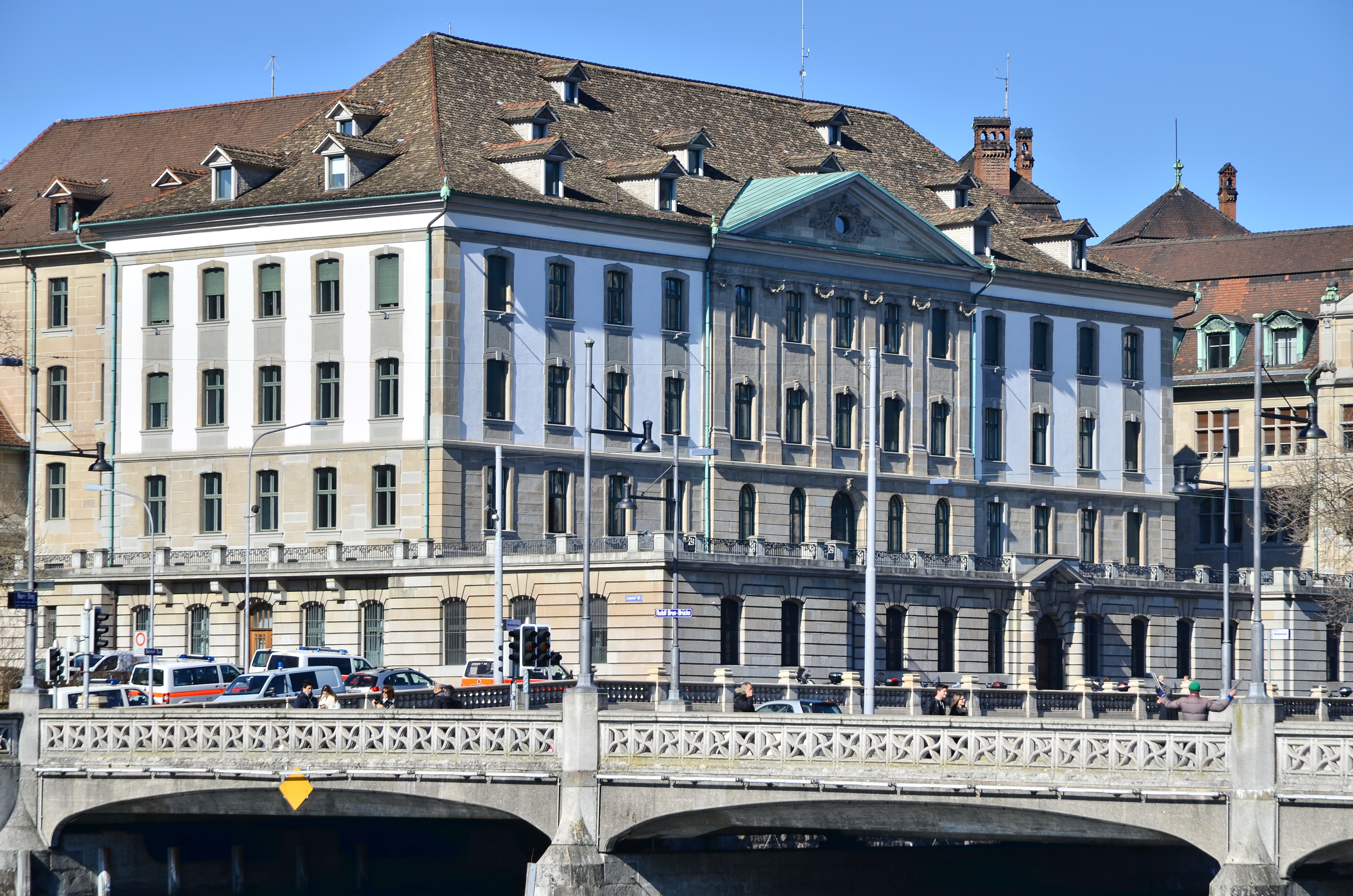 Amthaus I in Zürich (Switzerland), as of today the Stadtpolizei (City Police) station respectively the former Waisenhaus (orphanage) building of the Oetenbach nunnery, as seen from Limmatquai.